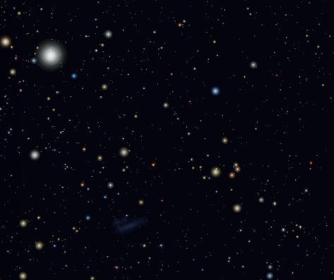 Image of Dorado